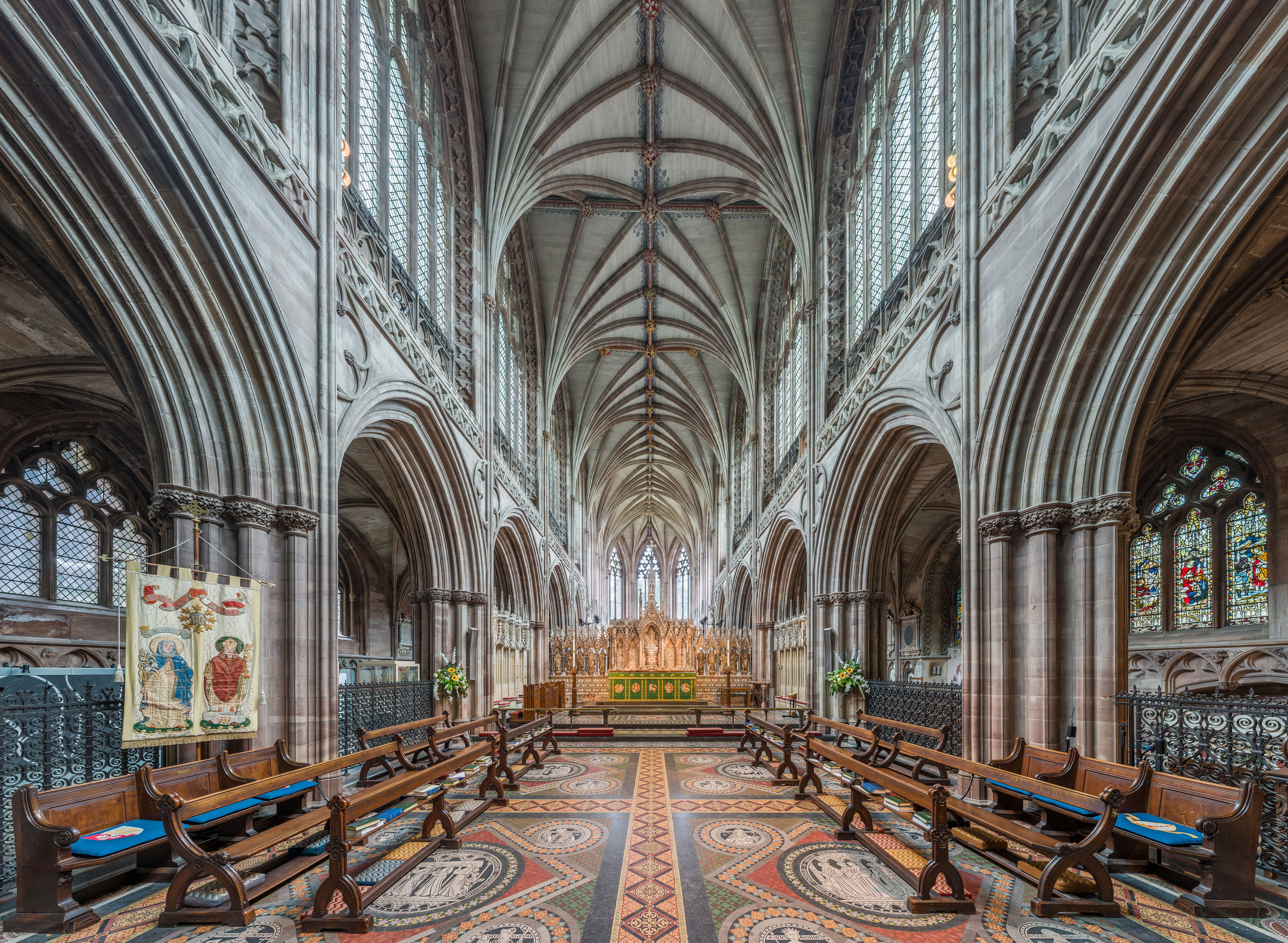 The high altar of Lichfield Cathedral in Staffordshire, England.